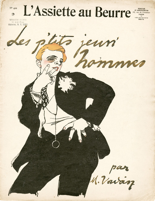 Miklós Vadász (1881–1927) Alternative names Nikolaus VadászDescriptionHungarian painter, draughtsman and illustratorDate of birth/death 27 June 1881 10 August 1927 Location of birth/death Budapest Paris Work location Paris (1919-1927)Authority control : Q1400818 VIAF: 121480466 ULAN: 500109848 GND: 1044273755 NKC: xx0220507 RKD: 78915 creator QS:P170,Q1400818 Vadász, Miklós (1881-1927), "L'Assiettte au Beurre" - Les p'tits jeun' hommes, n. 422, 1 mai 1909.